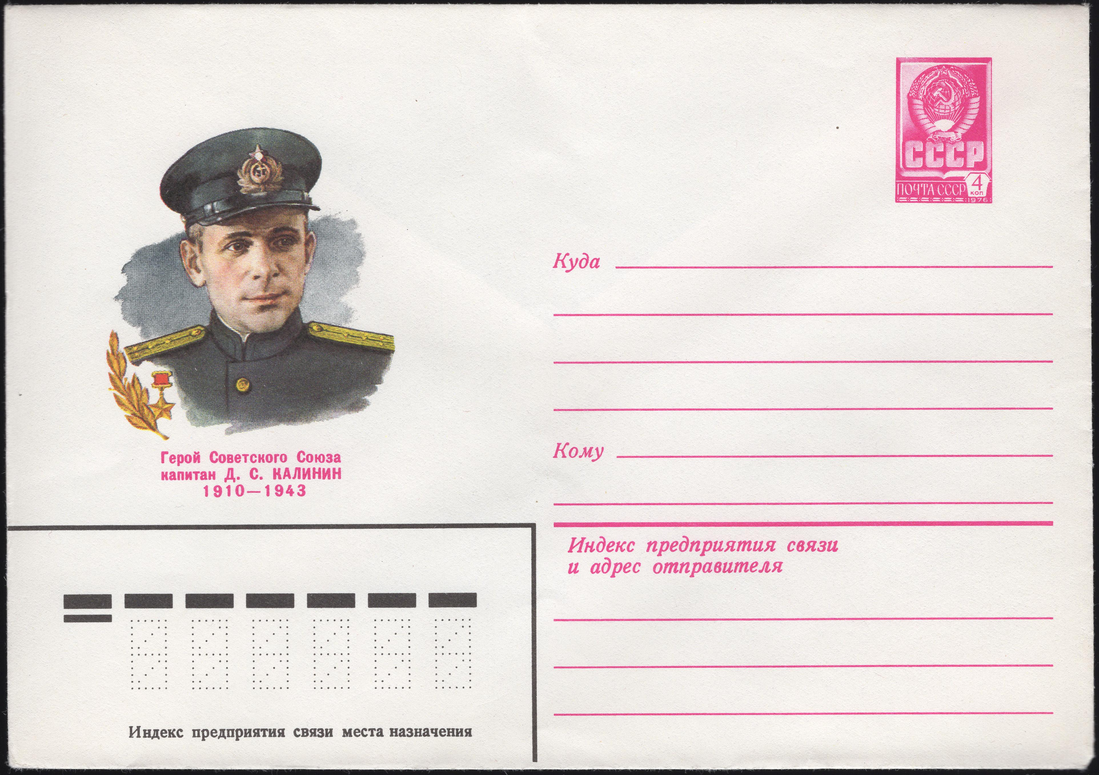 Hero of the Soviet Union Captain Dmitry Kalinin. 1910-1943. Series: Heroes of the Soviet Union. Artist Ignatyev N..